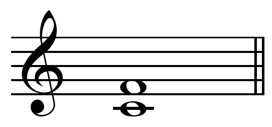 Perfect fourth on C = F. Just: 4:3 = 498.05 cents. Equal-tempered: 25/12:1 = 500 cents.